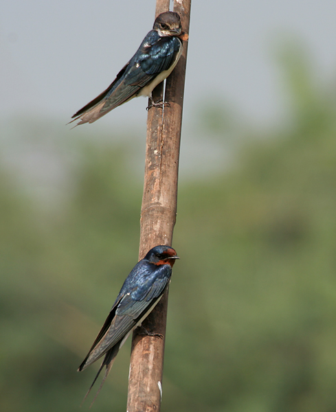 Barn Swallow Hirundo rustica in Kolleru, Andhra Pradesh, India.